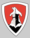 Emblem of 11th U-boat flotillia of Kriegsmarine.